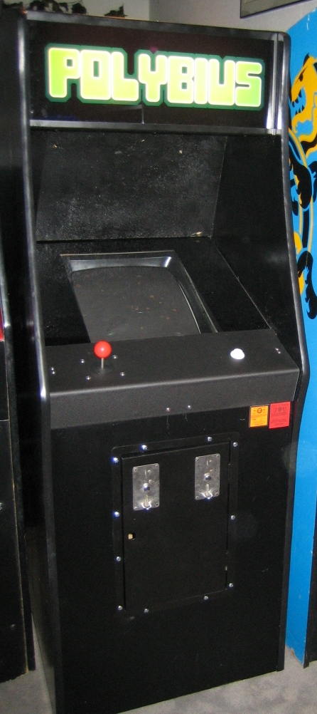 Polybius arcade game cabinet mockup from the Rogue Synapse collection.